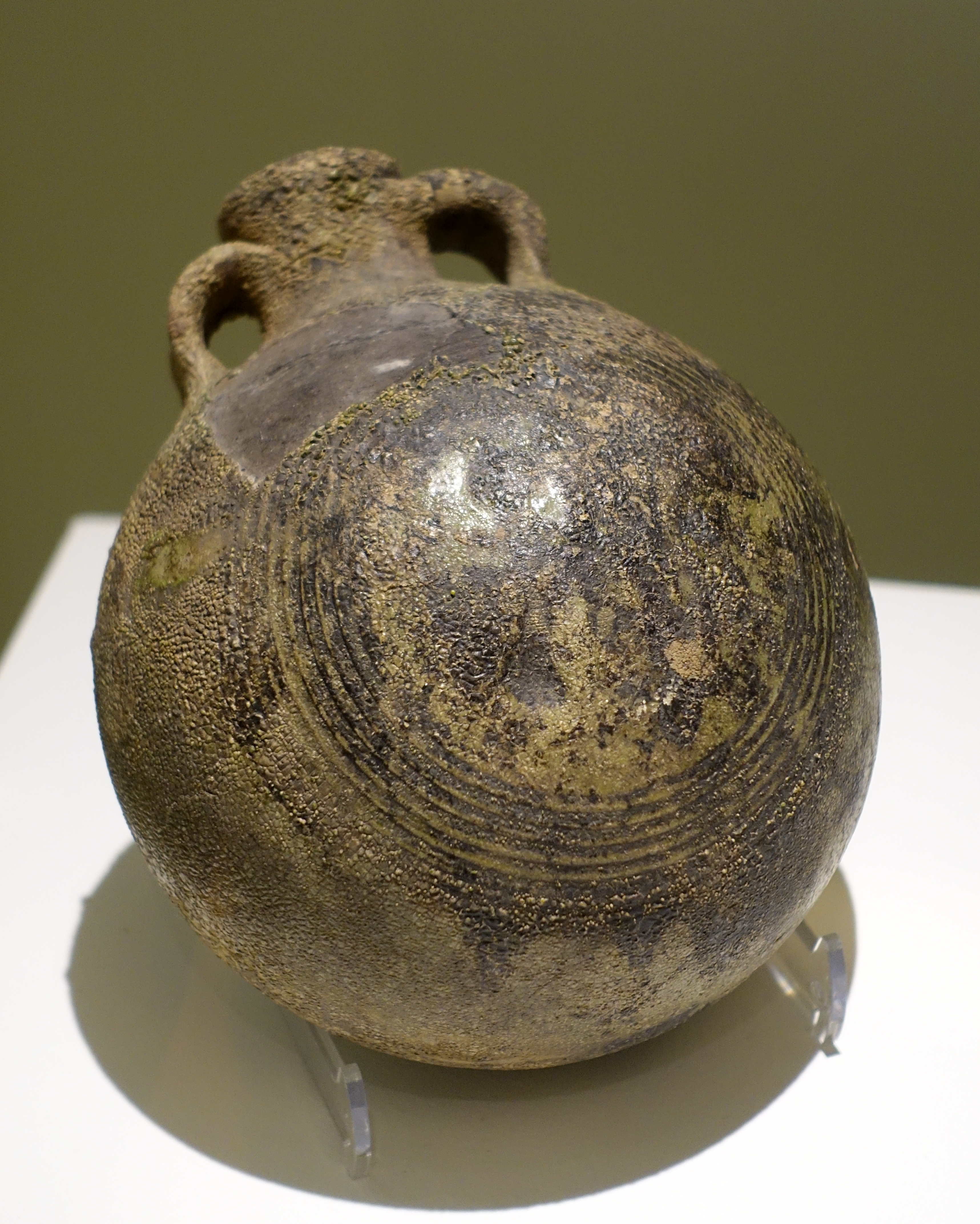 Exhibit in the Braunschweigisches Landesmuseum, Braunschweig, Germany.